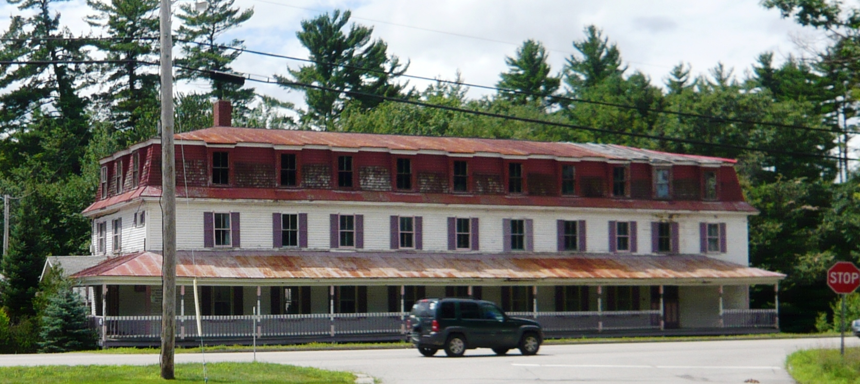 Old boarding house for Redstone quarry workers, Conway, New Hampshire. It was nicknamed the Schooner.